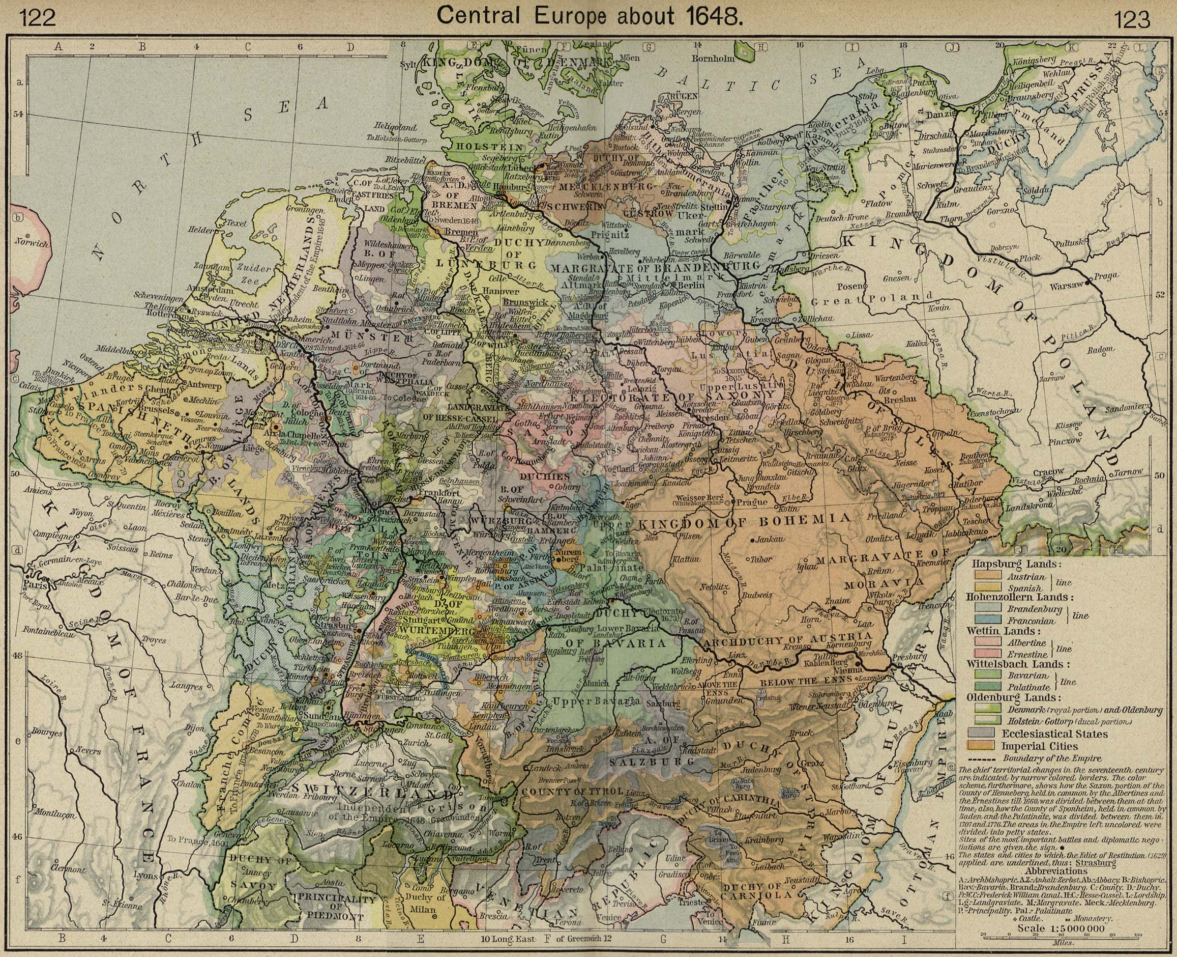 Map of Central Europe and the Holy Roman Empire around 1648, towards the end of the Thristy Yers War.